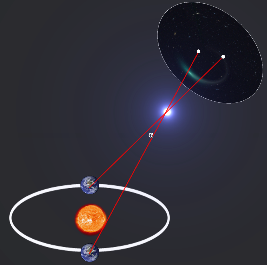 Illustration of parallax effect